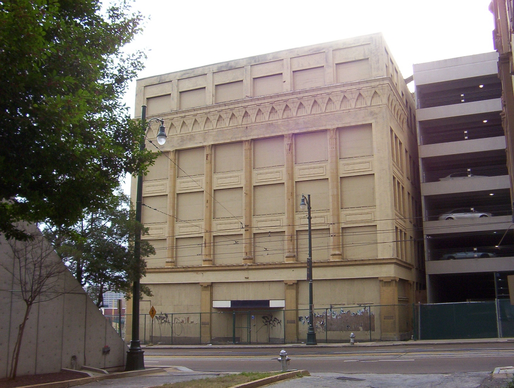 Toof Building, 195 Madison Ave, Memphis, TN, view from the north. The building is in the National Resister of Historic Places.